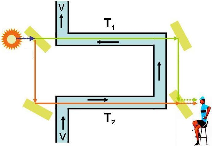 Fizeau apparatus for measuring how speed of light in water is affected by the water's motion